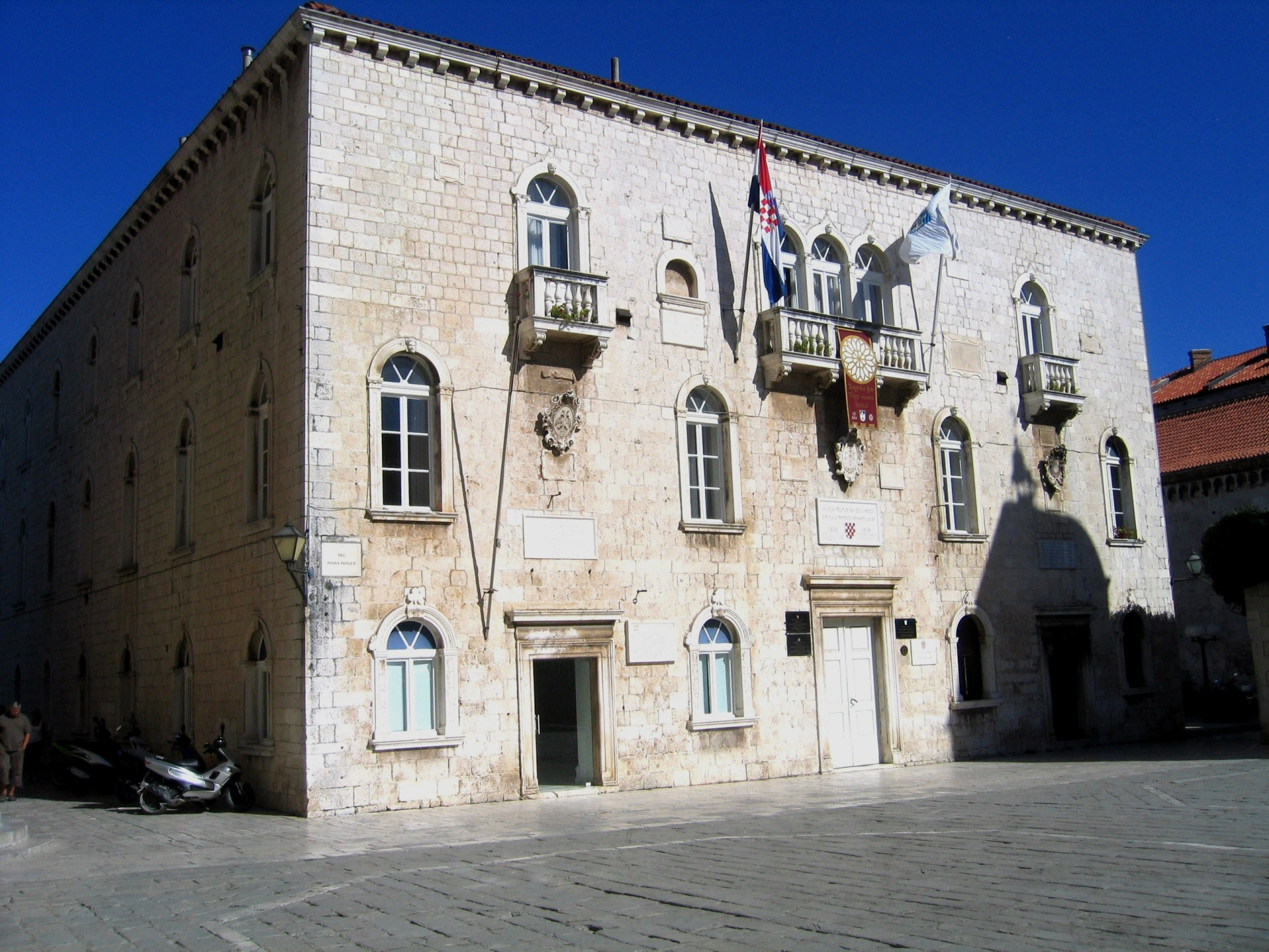 Croatie Trogir Hotel Ville